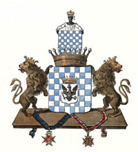 Coat of Arms of Gurowski family